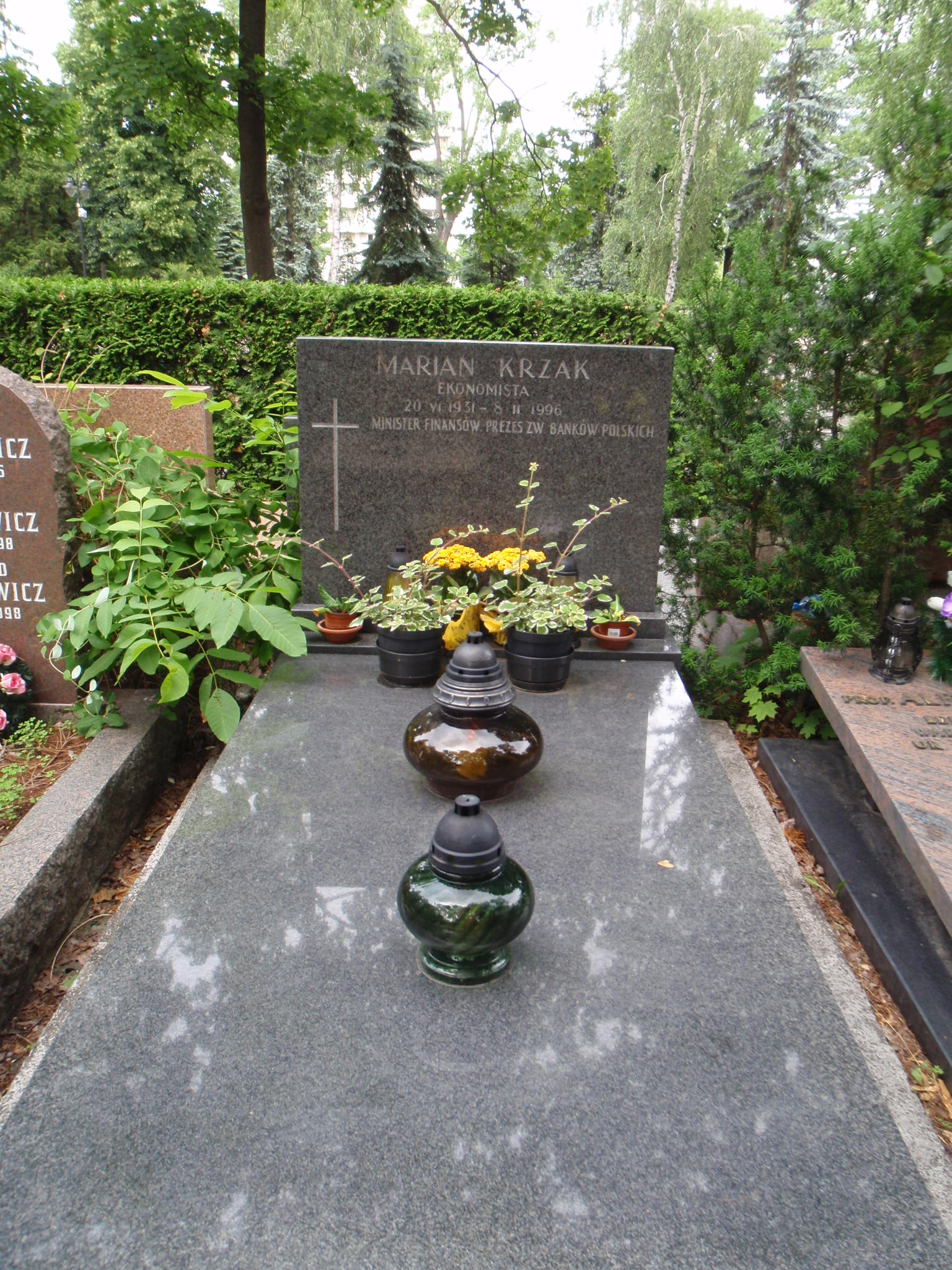 Grave of Marian Krzak